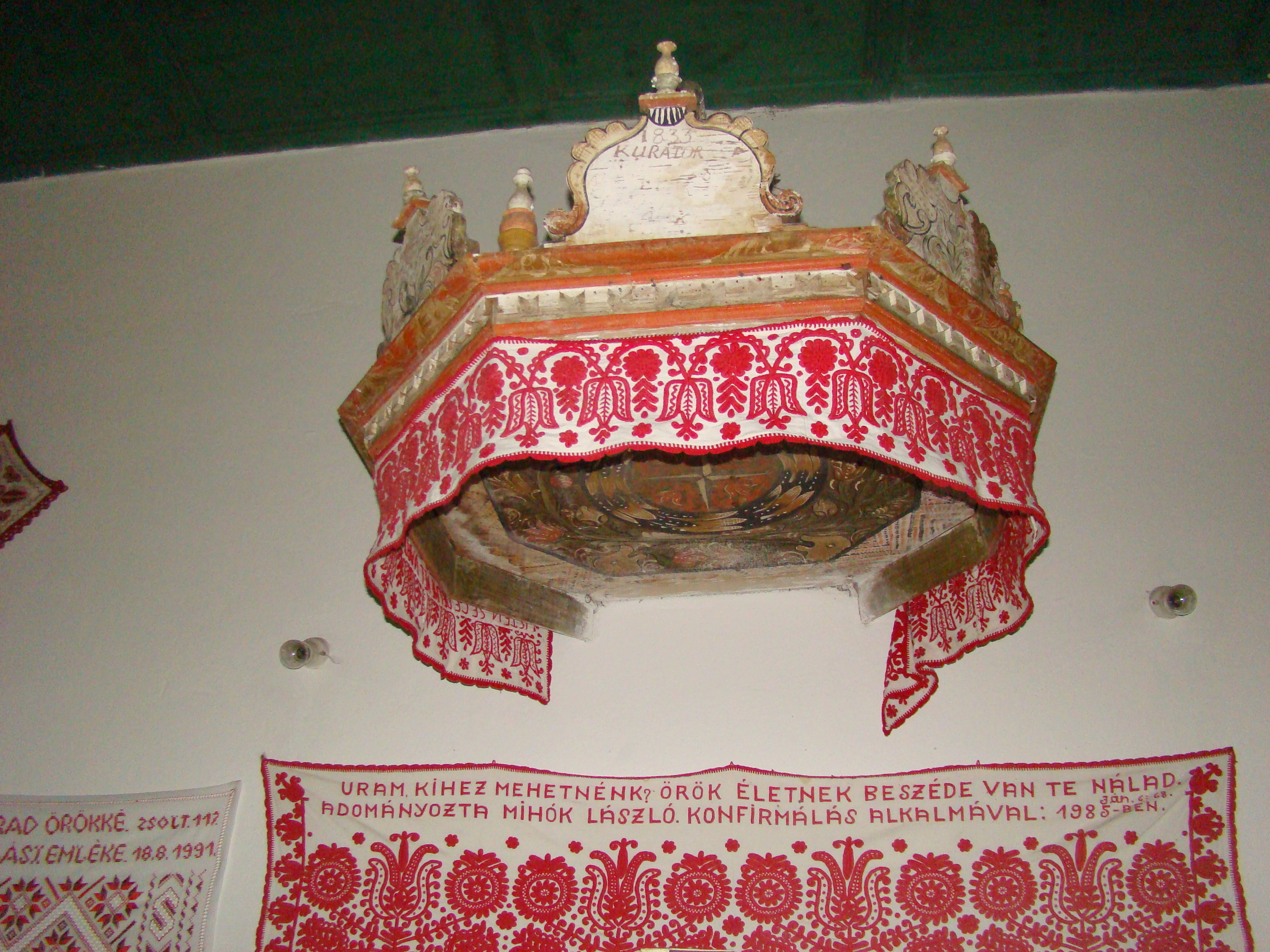 Reformed church in Băbiu, Sălaj county, Romania